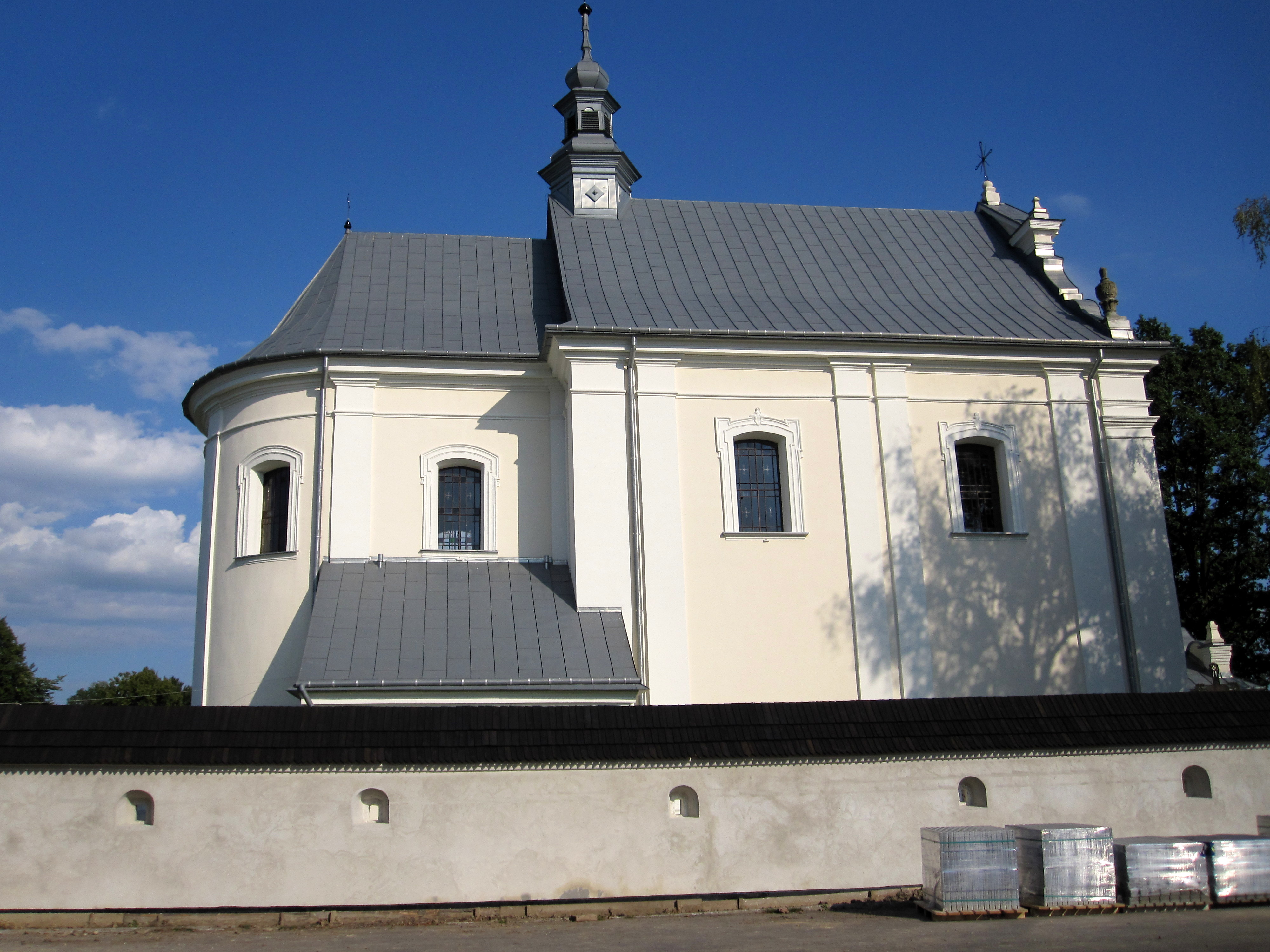 Saint Stanislaus church in Uherce Mineralne